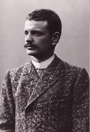 Finnish composer Jean Sibelius in 1891, when he studied in Vienna.